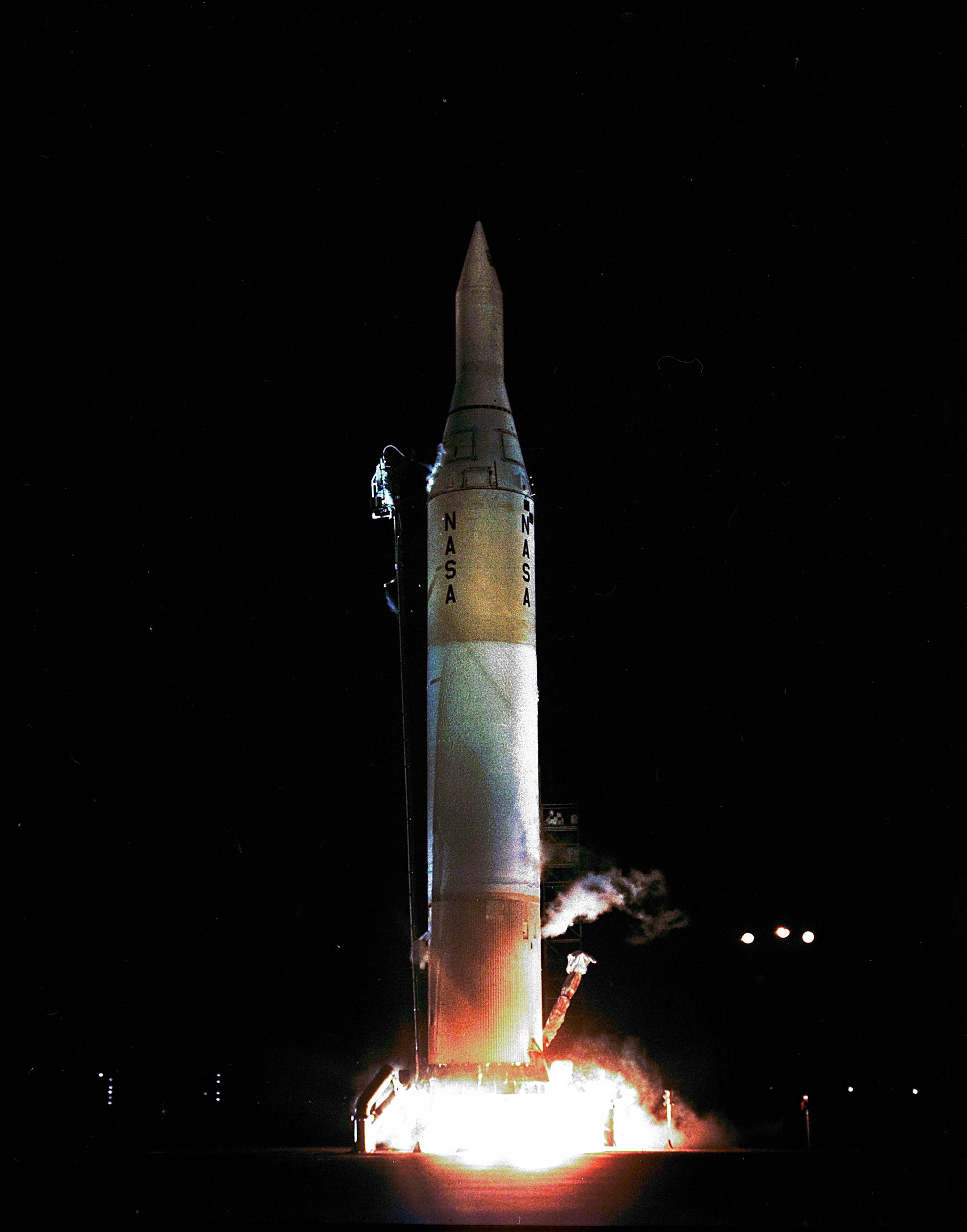 Wernher von Braun and his team were responsible for the Jupiter-C hardware. The family of launch vehicles developed by the team also came to include the Juno II, which was used to launch the Pioneer IV satellite on March 3, 1959. Pioneer IV passed within 37,000 miles of the Moon before going into solar orbit.